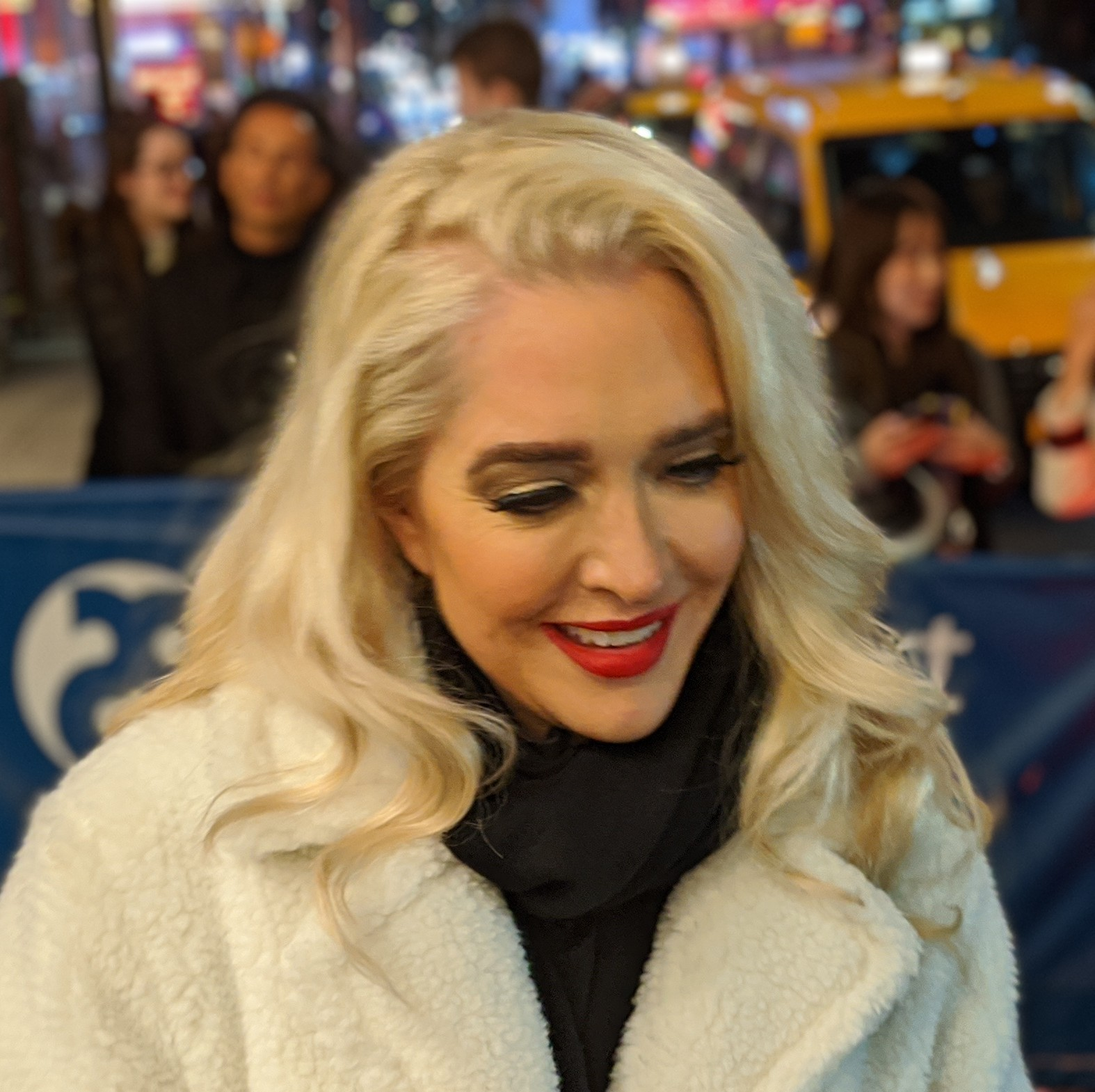 Erika Jayne signing autographs outside the Ambassador theater in New York, NY on March 2, 2020 after a performance of the Chicago musical.